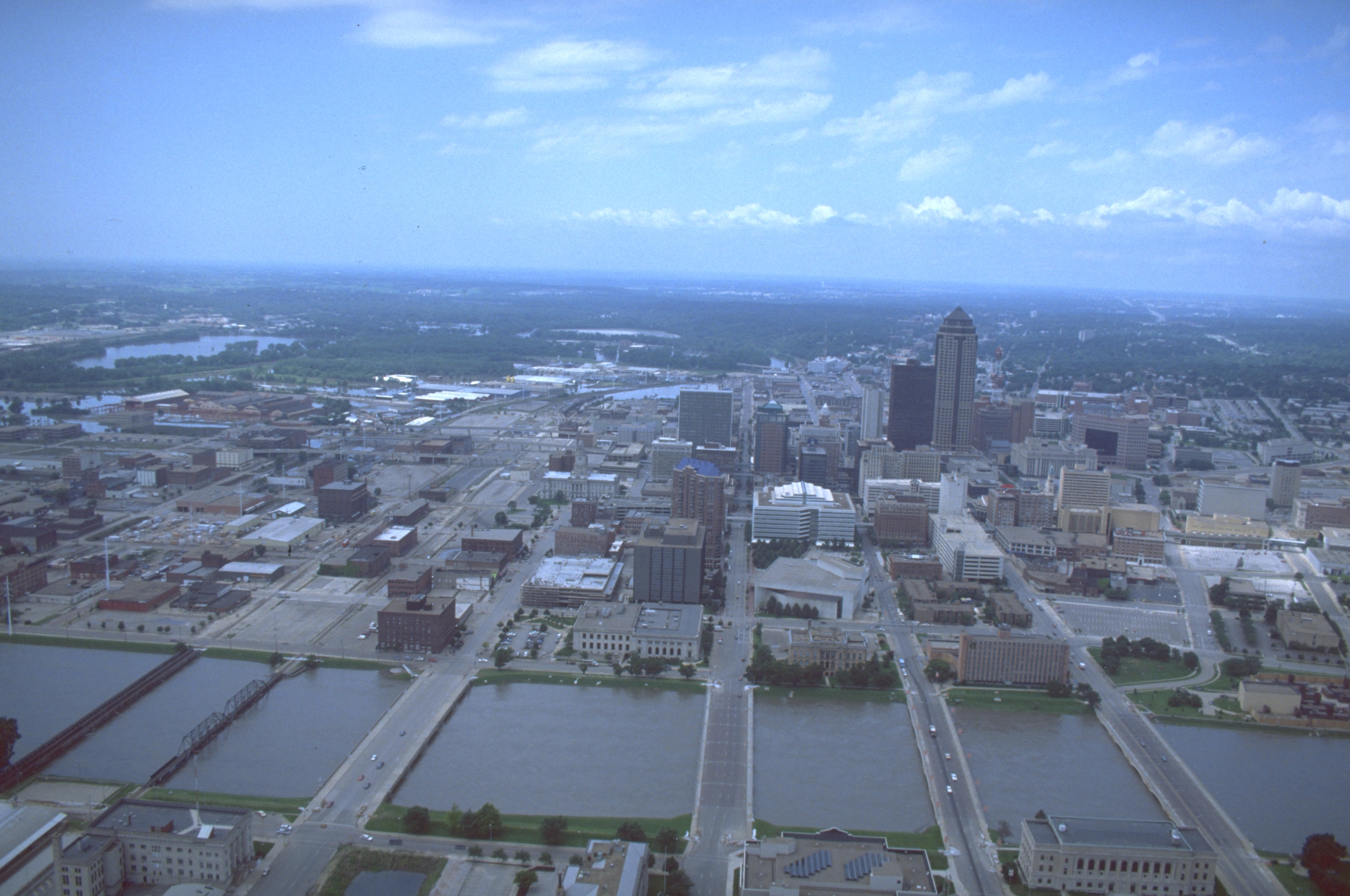 Des Moines River, Iowa, July 1993 -- An aerial view of floodwaters showing the extent of the damage wreaked by the disaster. A total of 534 counties in nine states were declared for federal disaster aid. As a result of the floods, 168,340 people registered for federal assistance. Photo by Andrea Booher/FEMA Photo